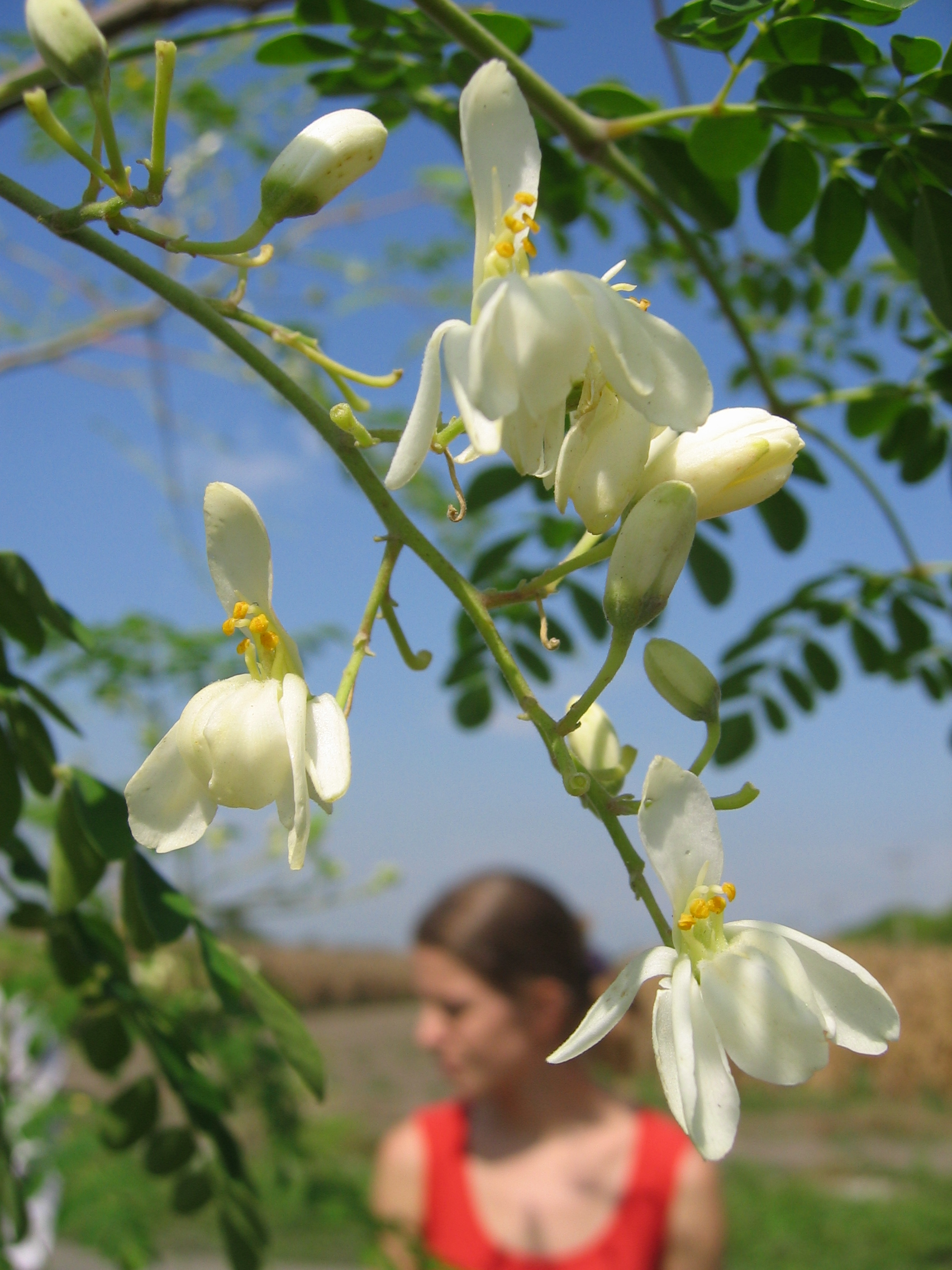 Flowers of Moringa oleifera (drumstick tree). Locality: Colombia.